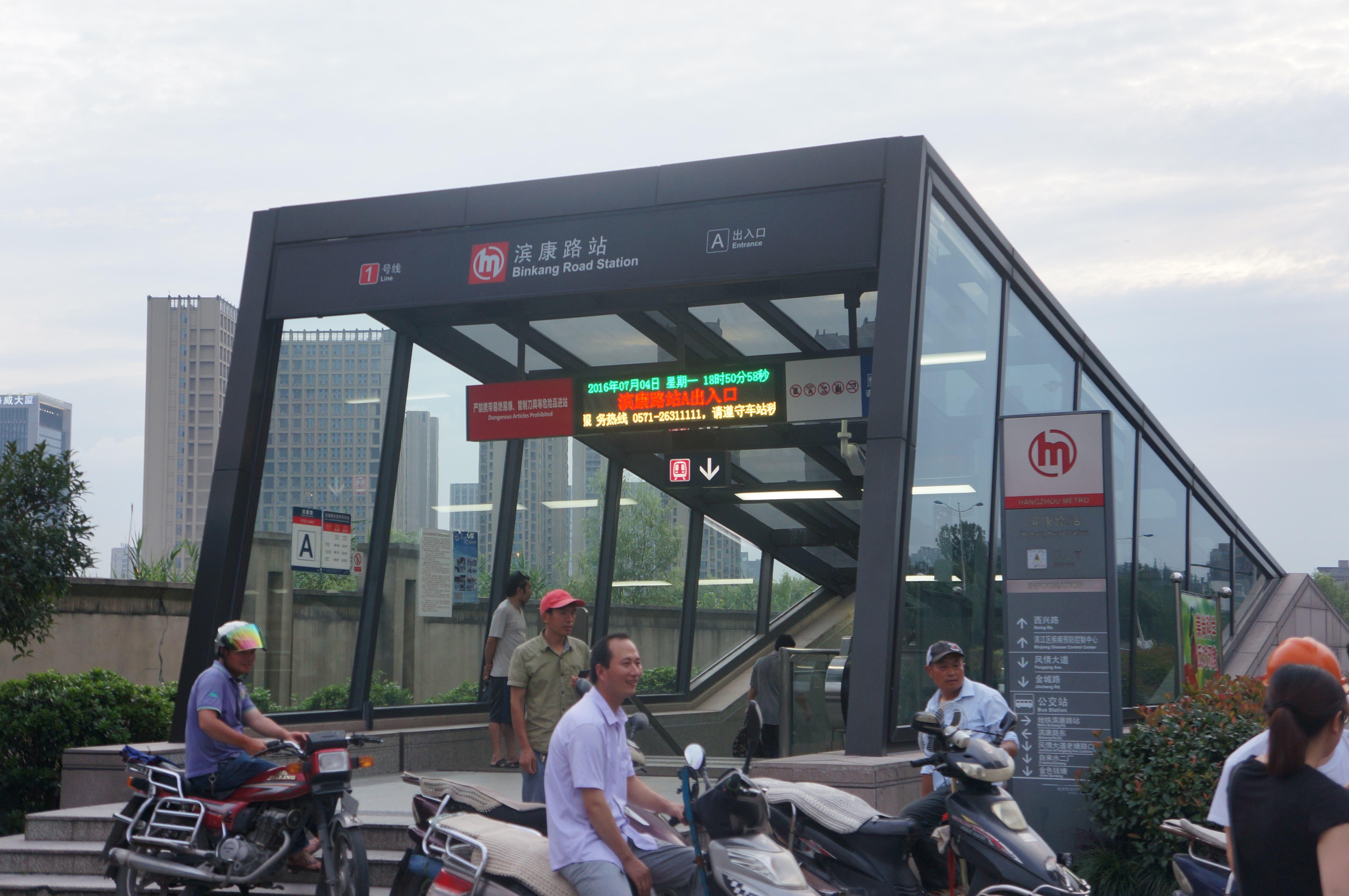 201607 Exit A of Binkang Road Station